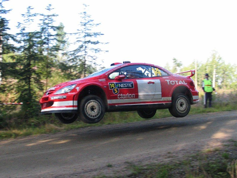 Sebastian Lindholm driving his Peugeot 307 WRC at the 2004 Rally Finland.